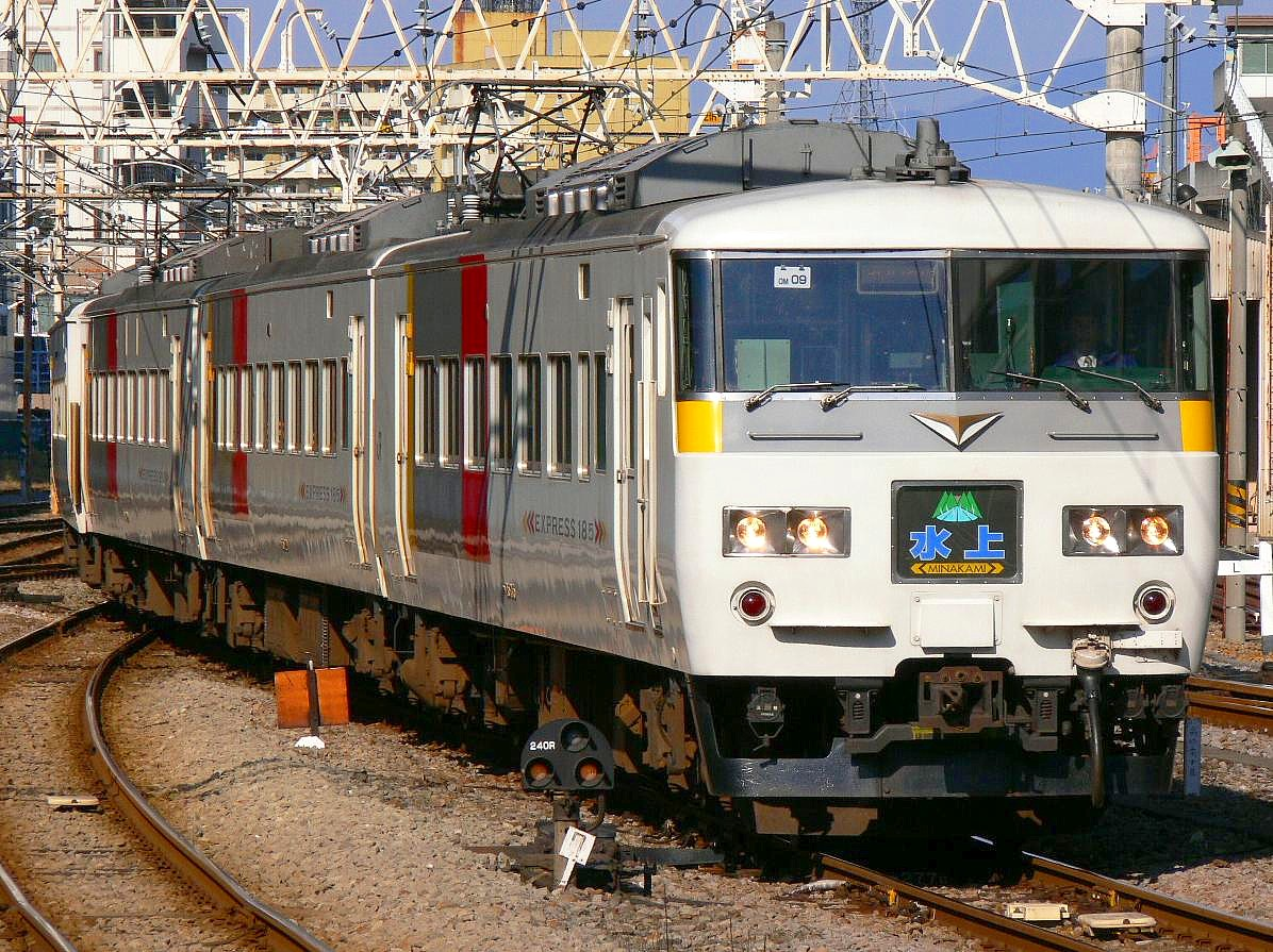 JR East 185-200 series EMU on a "Minakami" limited express service at Takasaki Station